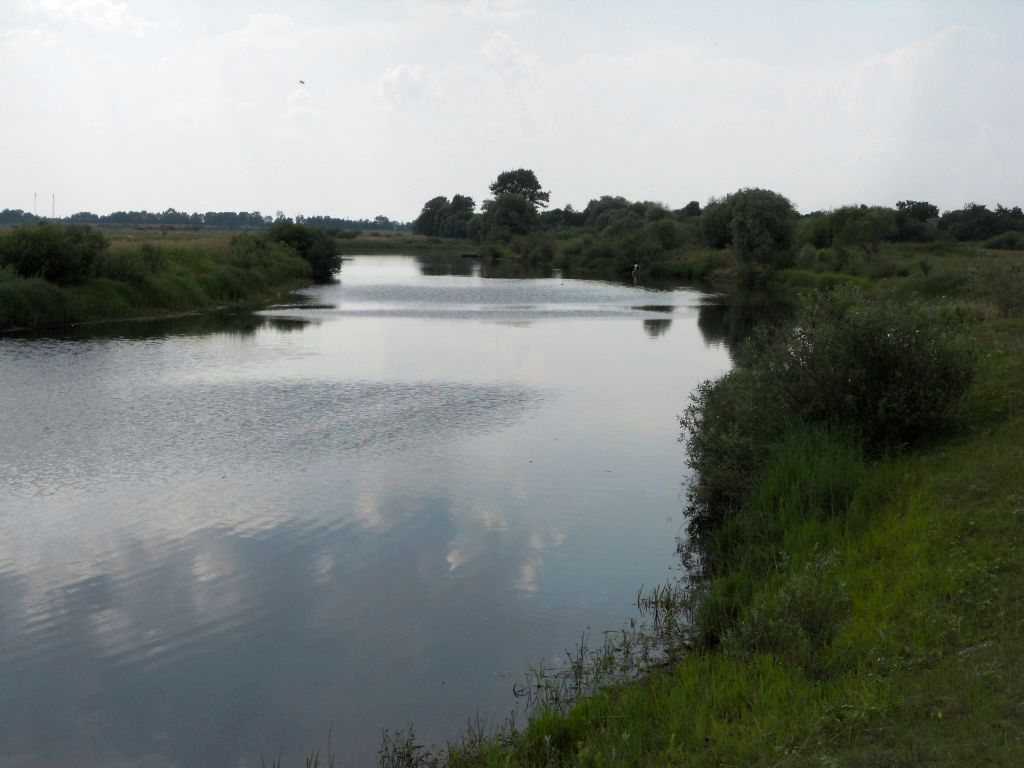 Syrets